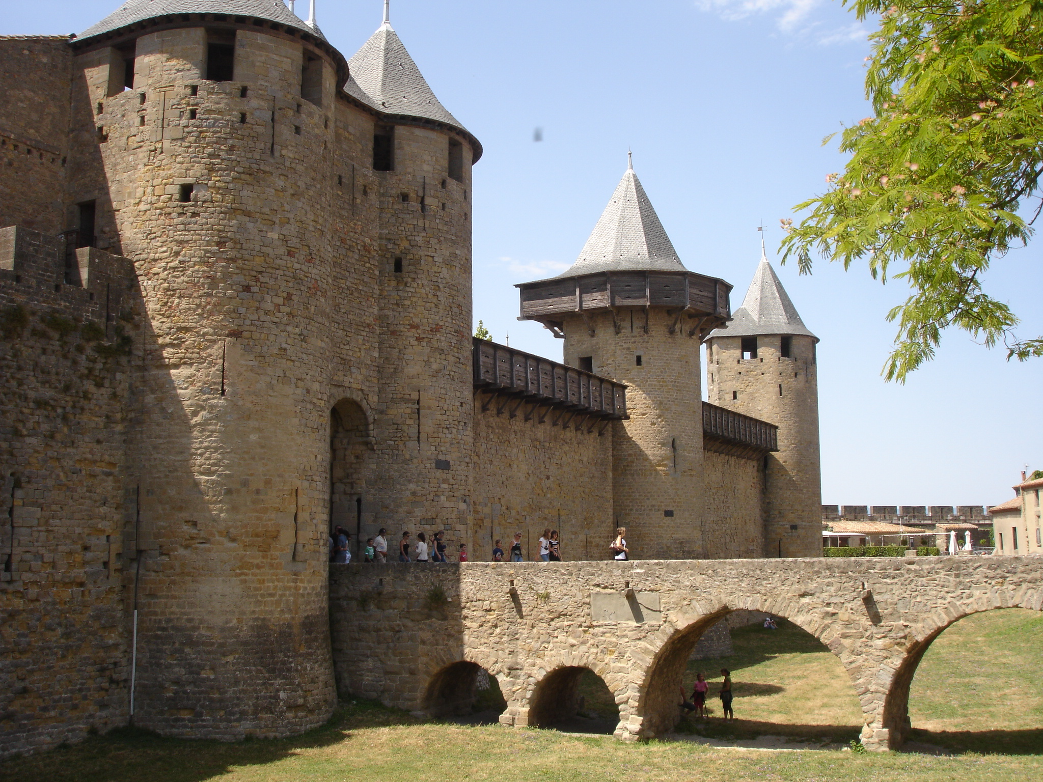 Carcassonne, France, showing the classic features of the curtain walls, defensive ditch with arched bridge, and cylindrical flanking towers, with a gatehouse and additional wooden defensive structures, here defending a walled city.